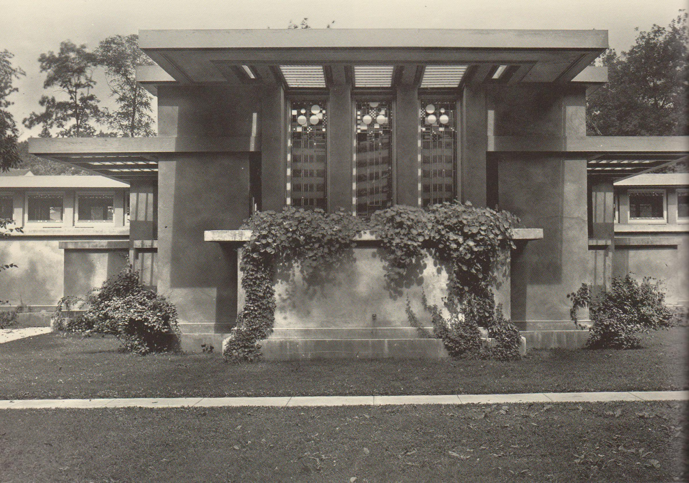 The Coonley Playhouse, Downers Grove, Ilinois. Early home of The Avery Coonley School. Designed by Frank Lloyd Wright.